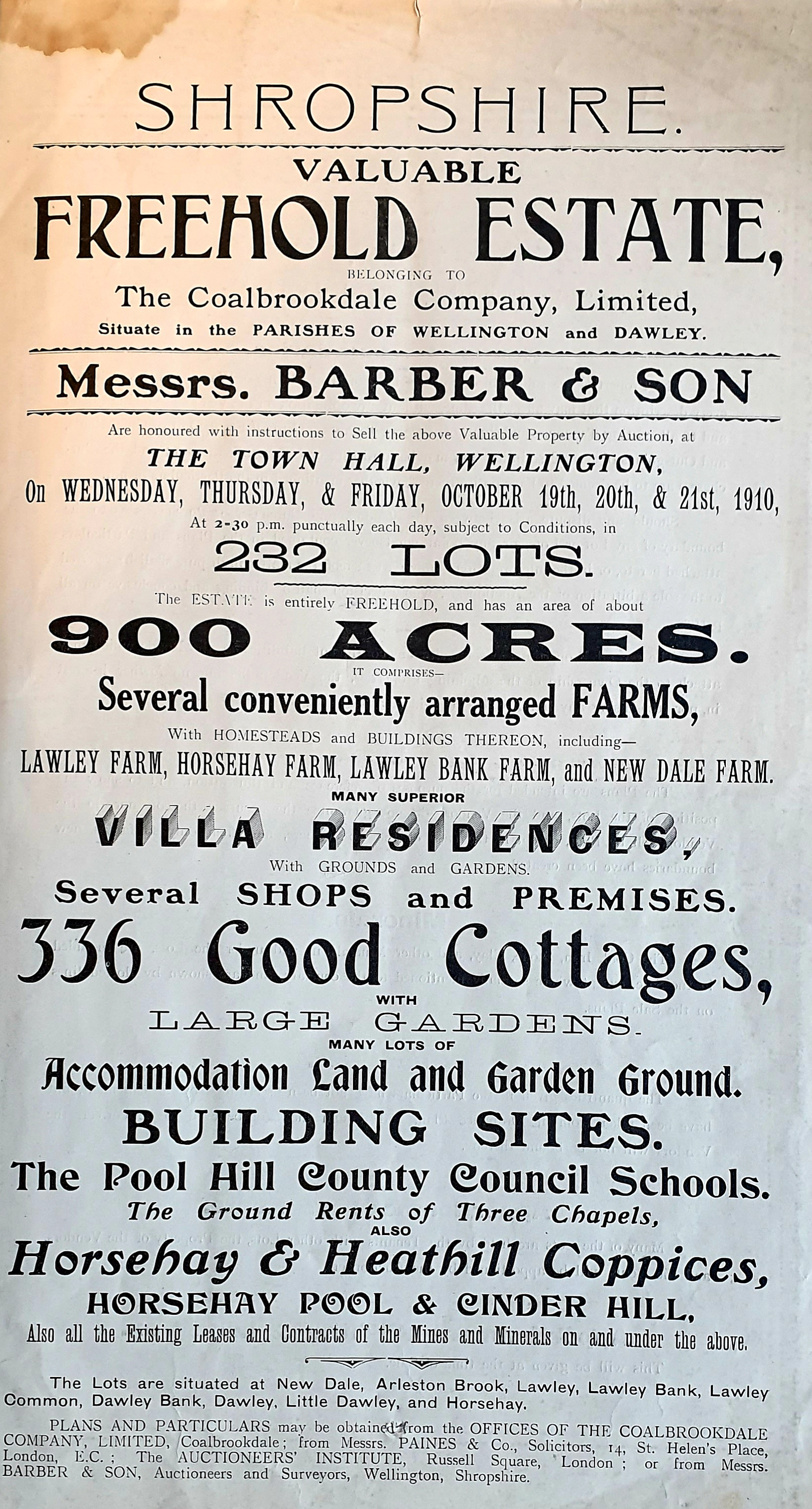 Poster for an auction held by Messrs. Barber & Son on behalf of the the Coalbrookdale Company in 1910.